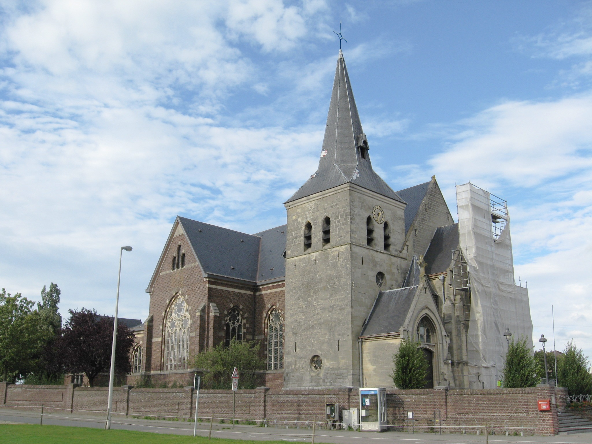 Church of Saint Willibrord in Reppel, Bocholt, Limburg, Belgium